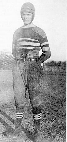 Picture of Phillip Norris "Army" Armstrong from Centre College, Kentucky.